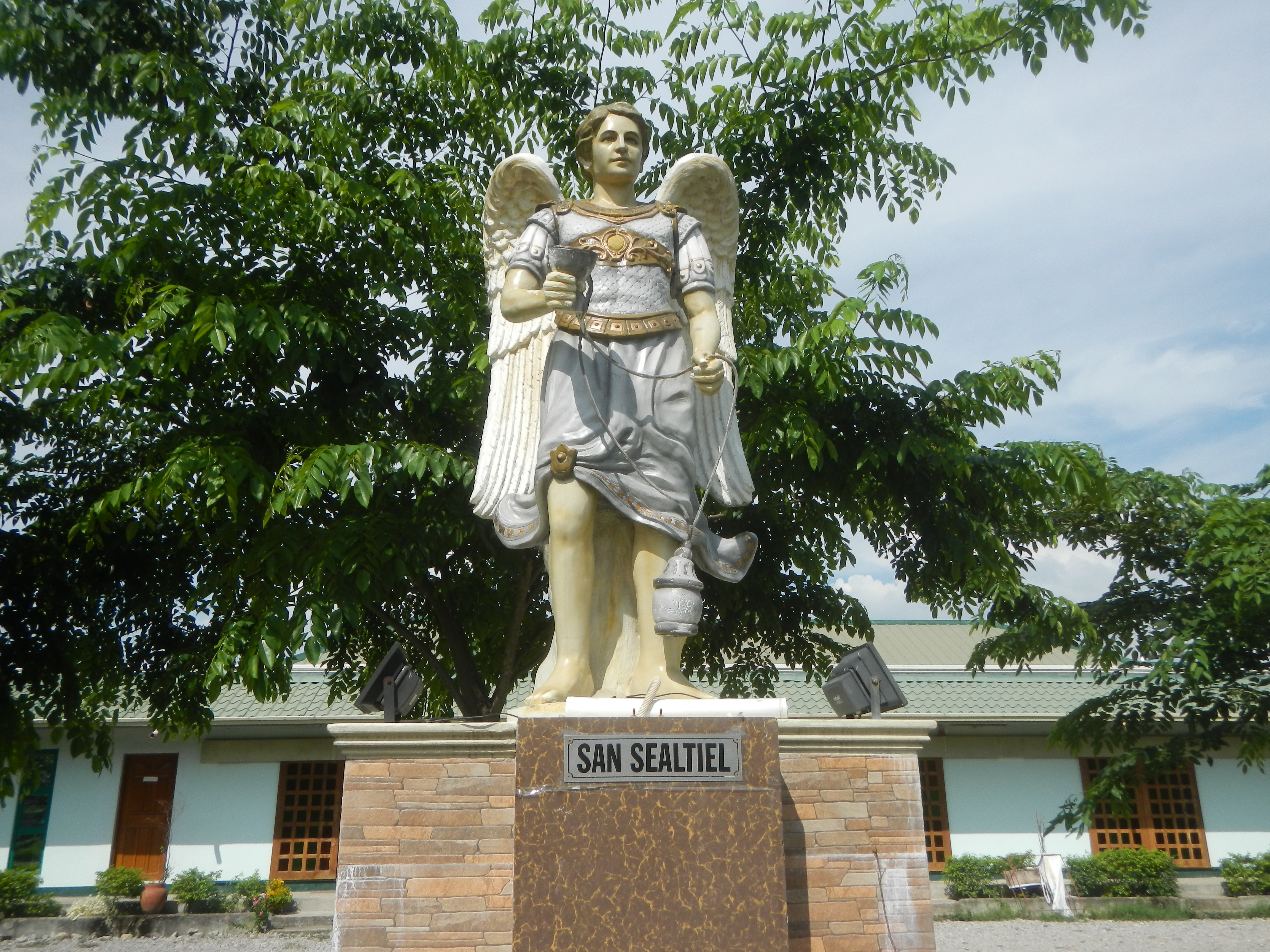 Statues of archangels in the Holy Angels Parish Church (San Jose, Plaridel, Bulacan) San Jose-Bulihan, Plaridel, Bulacan Provincial Road Construction of the Holy Angels Parish Church (San Jose, Plaridel, Bulacan) in Barangays, San Jose 14°53'34"N 120°53'58"E Bulihan 14°52'29"N 120°54'4"E Plaridel, Bulacan bounded by Barangays Pulong Gubat 14°51'43"N 120°54'37"E Santol 14°51'5"N 120°54'48"E, Balagtas, Bulacan, along the Santol-Dalig, Balagtas, Bulacan Provincial Road) (in and from C.L. Hilario Street corner General Alejo Santos Highway, Bustos-Angat, Bulacan accessed from Doña Remedios Trinidad Highway, or Maharlika Highway (Cagayan Valley Road, San Rafael-San Ildefonso, Bulacan section) (Note: Judge Florentino Floro, the owner, to repeat, Donor Florentino Floro of all these photos hereby donate gratuitously, freely and unconditionally all these photos to and for Wikimedia Commons, exclusively, for public use of the public domain, and again without any condition whatsoever).